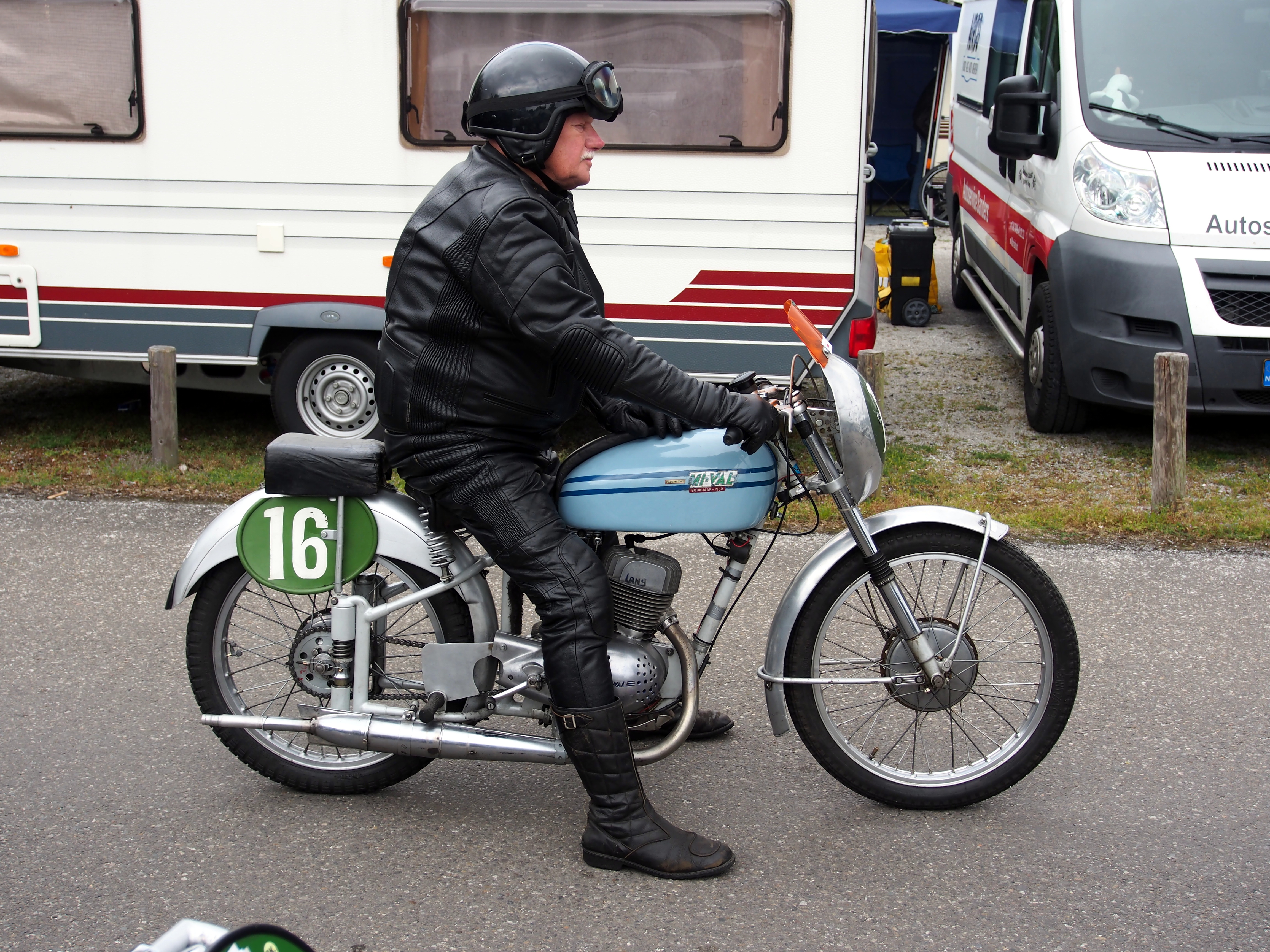 Photographed at Rockanje, The Netherlands.